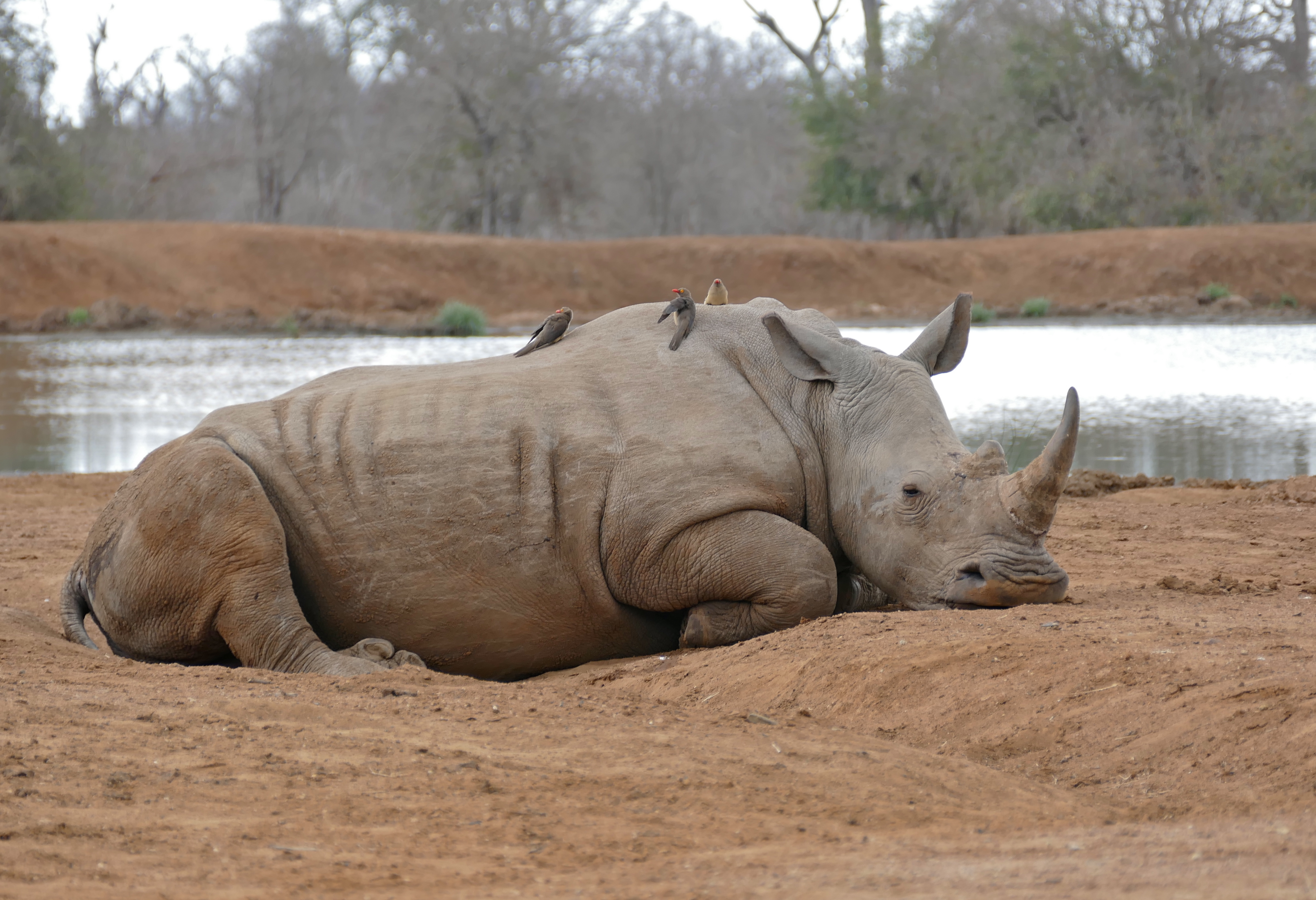 Ndlovu Camp, Hlane Royal National Park, SWAZILAND